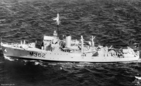 Australian Bathurst class sloop HMAS Junee as a training ship in 1954. Her wartime armament has been replaced with two 40mm Bofors guns.